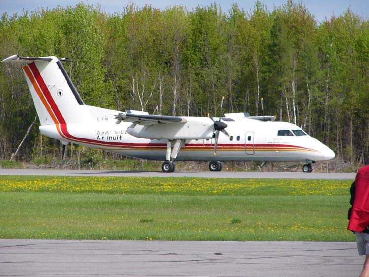 A DeHavilland DHC-8-102 belonging to Air Inuit at Cornwall Ontario, May 2005